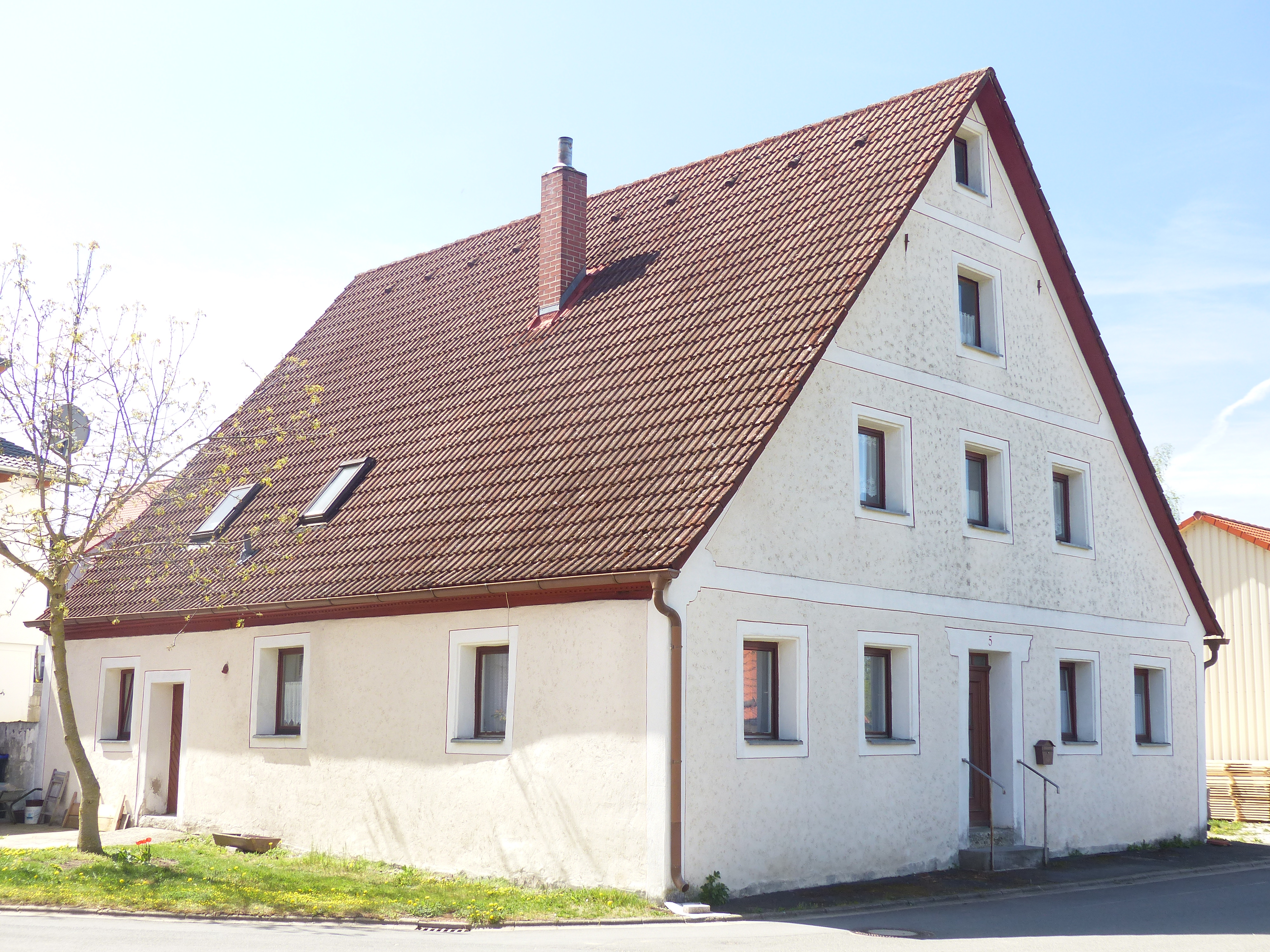 A farmhouse in the village Kappel, a district of the municipality Hiltpoltstein